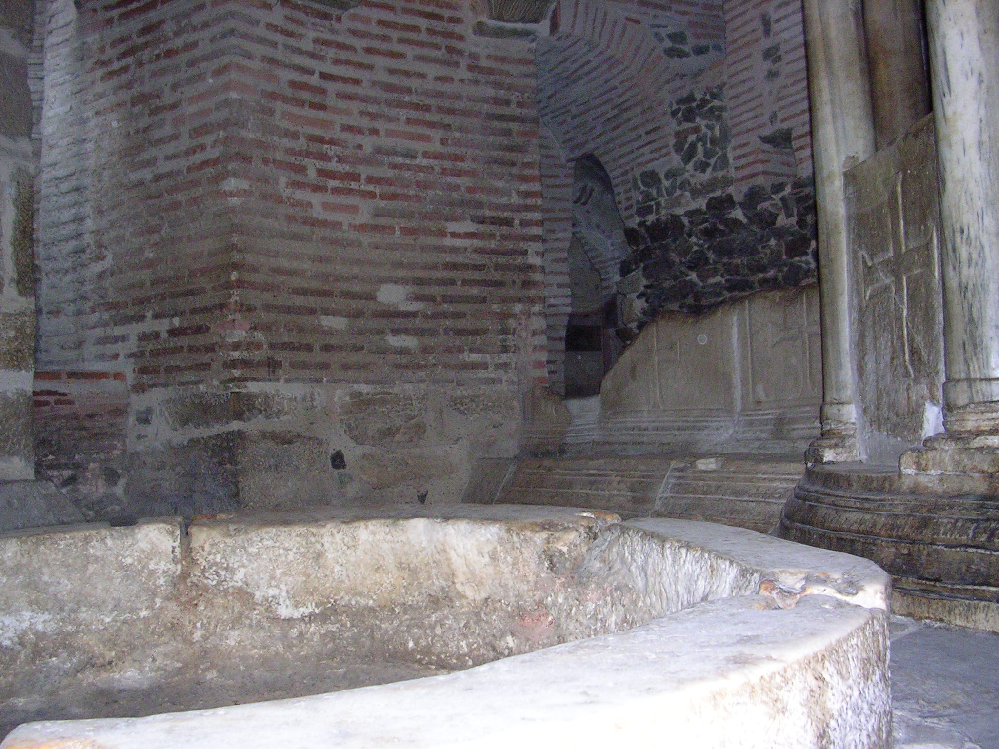 crypt of church of Saint Demetrius, pool for myrrh